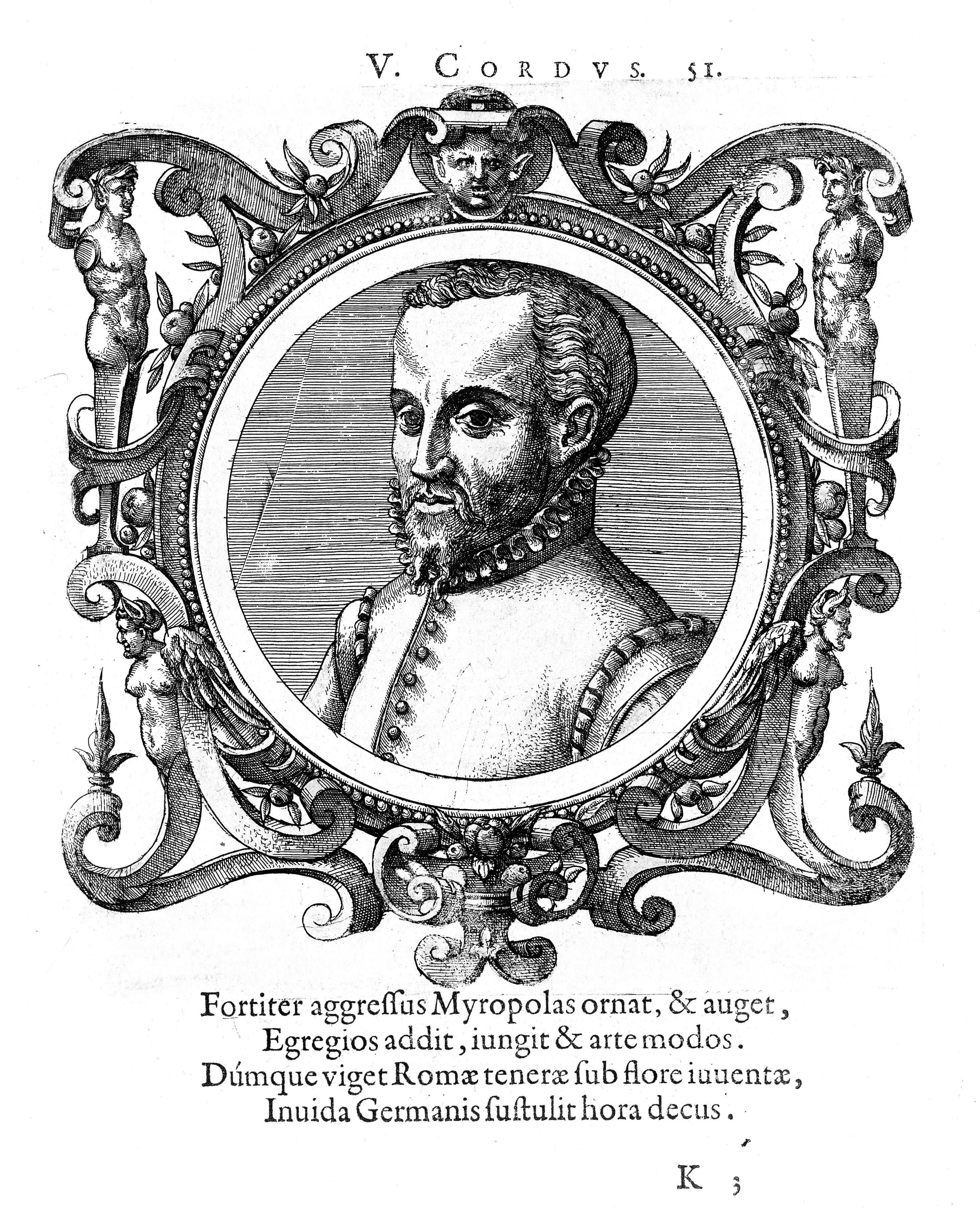 Portrait of Valerius Cordus Iconographic Collections Keywords: Valerius Cordus